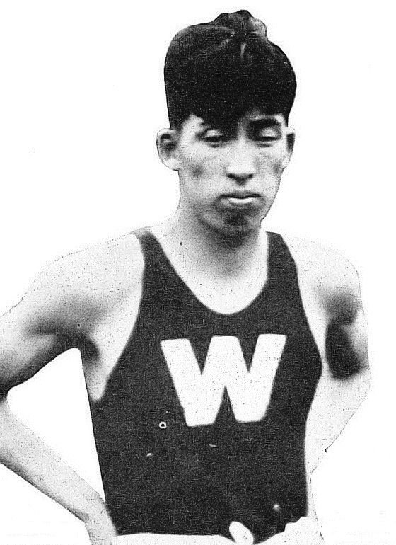 Shuhei Nishida